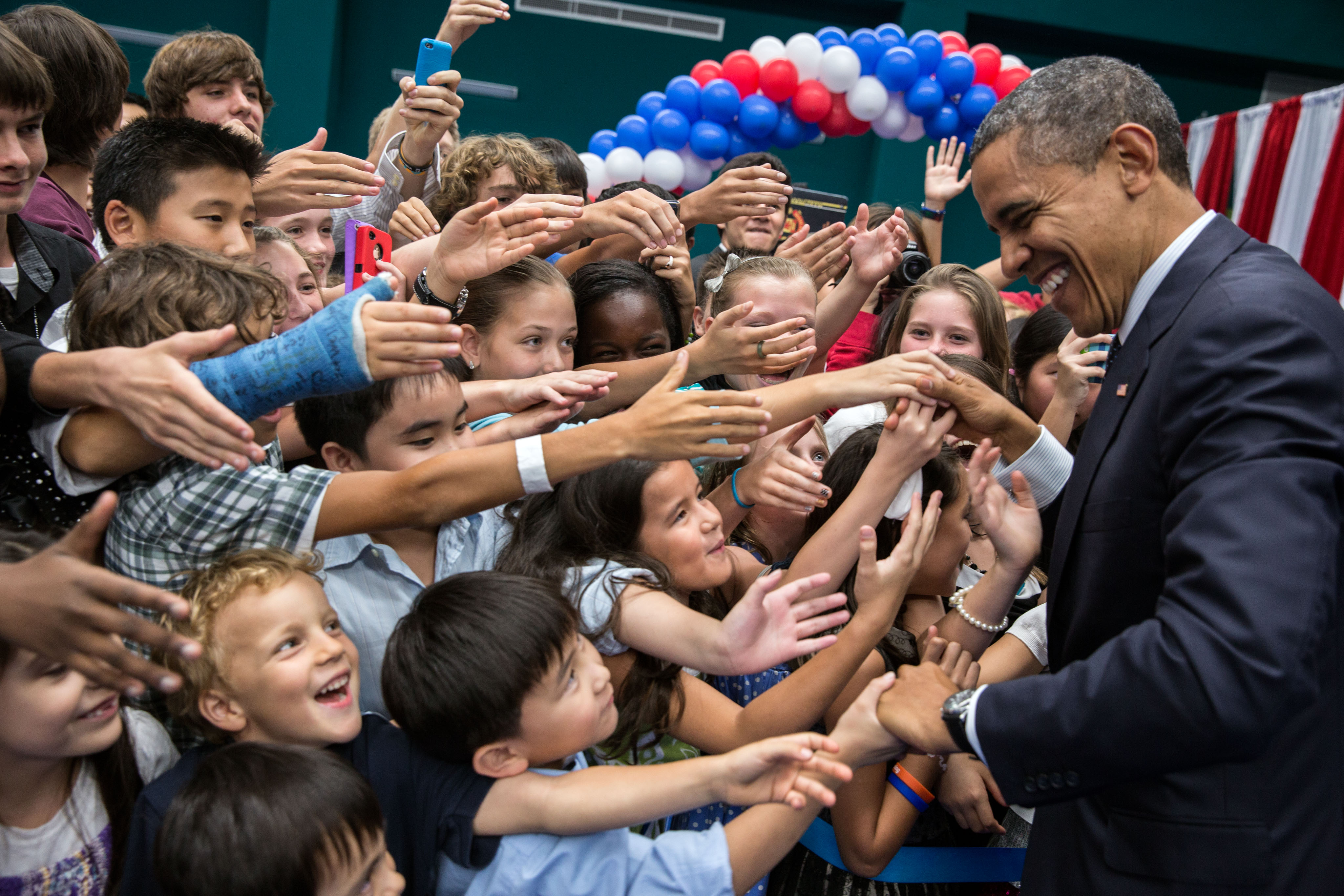 United States President Barack Obama greets the children of U.S. embassy staff during a reception at the Chulalongkorn University Sports Center in Bangkok on 18 November 2012.